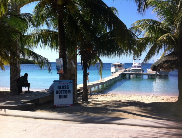 Roatan